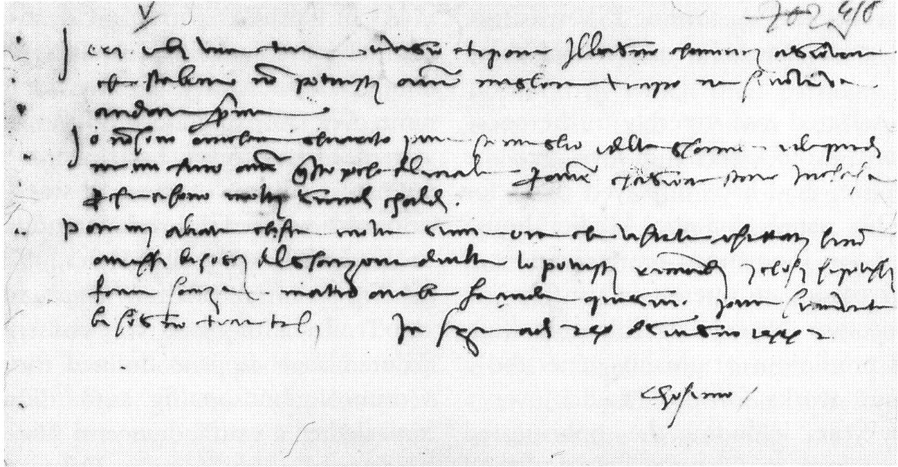 A letter from Cosimo de’ Medici to his son Giovanni di Cosimo de’ Medici. Autograph. Florence, Archivio di Stato, Medici avanti il Principato, V, 441.